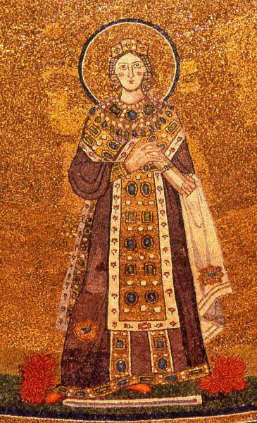 Saint Agnes, from the basilica of Sant'Agnese fuori le mura, Rome